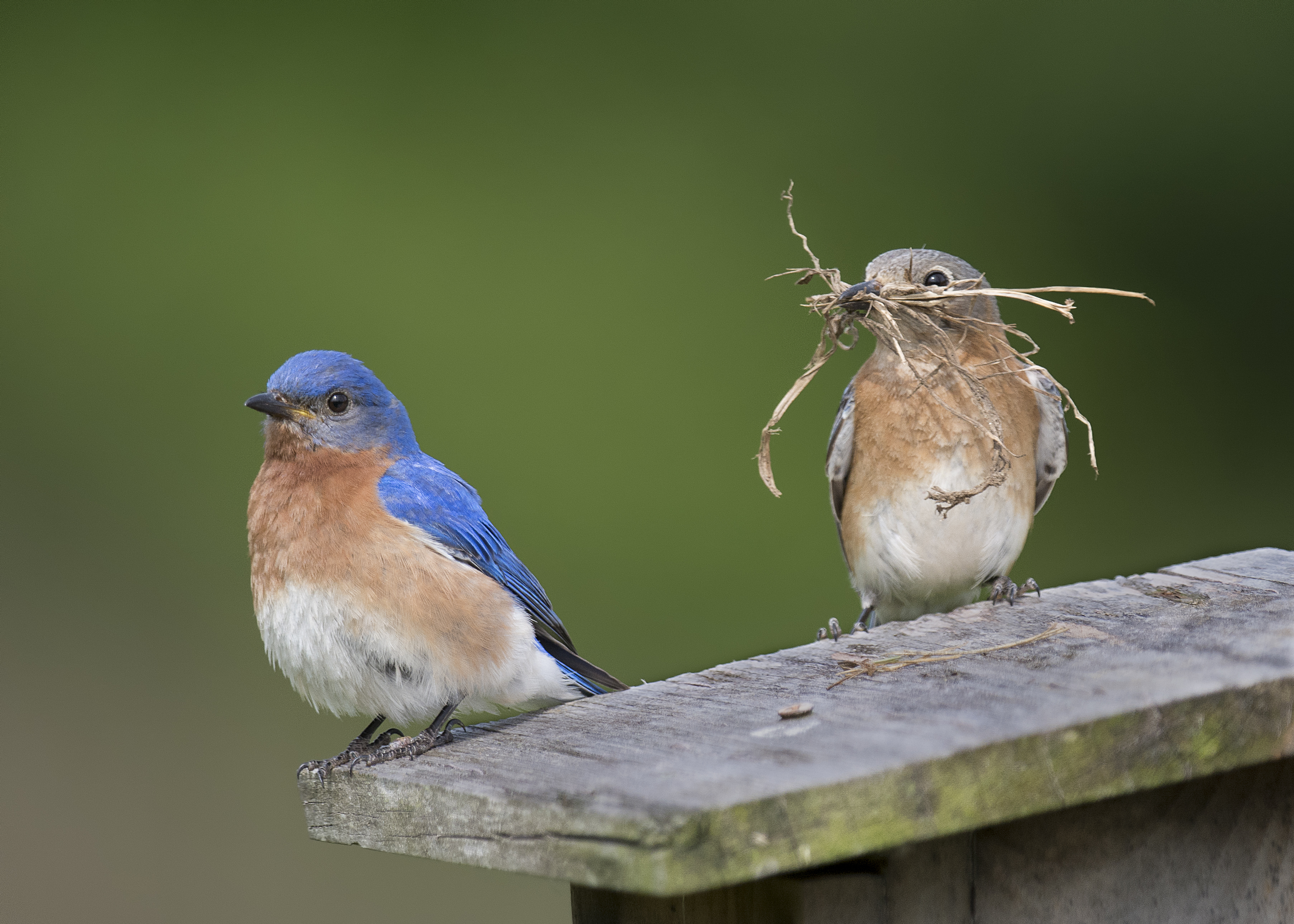 blue birds of happiness